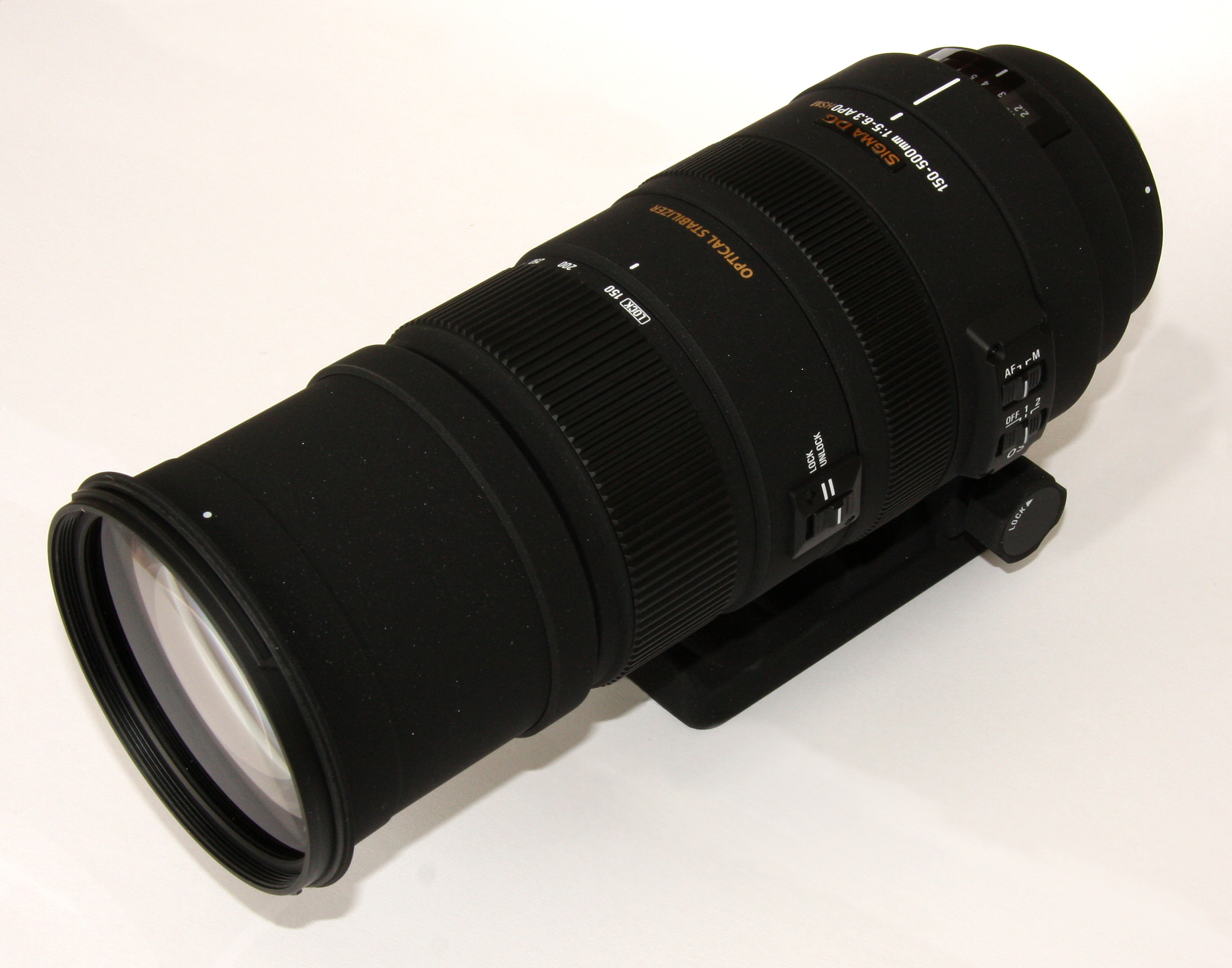 Sigma APO 150-500mm F5-6.3 DG OS HSM lens, fully retracted (i.e. at 150 mm)